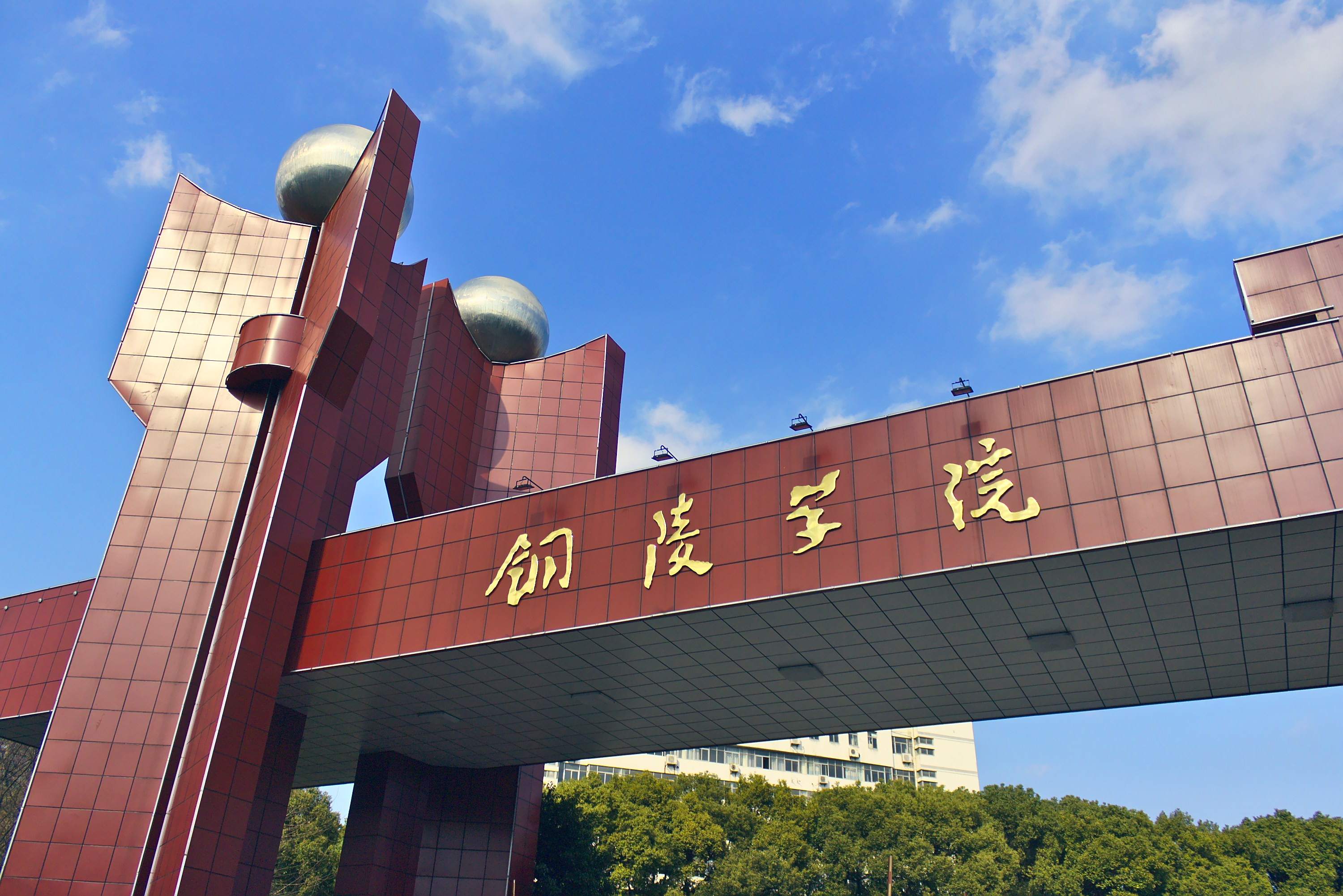 Main entrance of the university